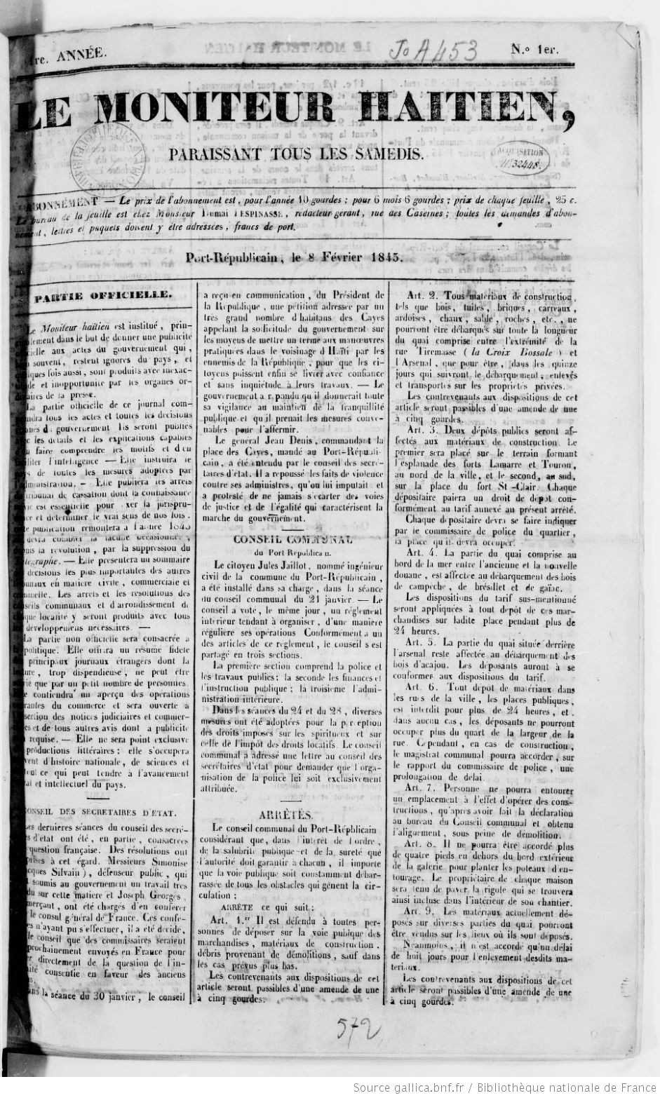 Front page of first issue of Le Moniteur haïtien, official journal of the Republic of Haiti, published in Port-Républicain (Port-au-Prince) on 8 February 1845